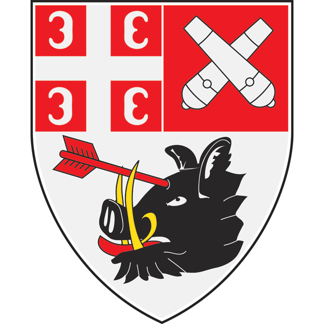 small coat of arms of the city and municipality of Kragujevac in Serbia